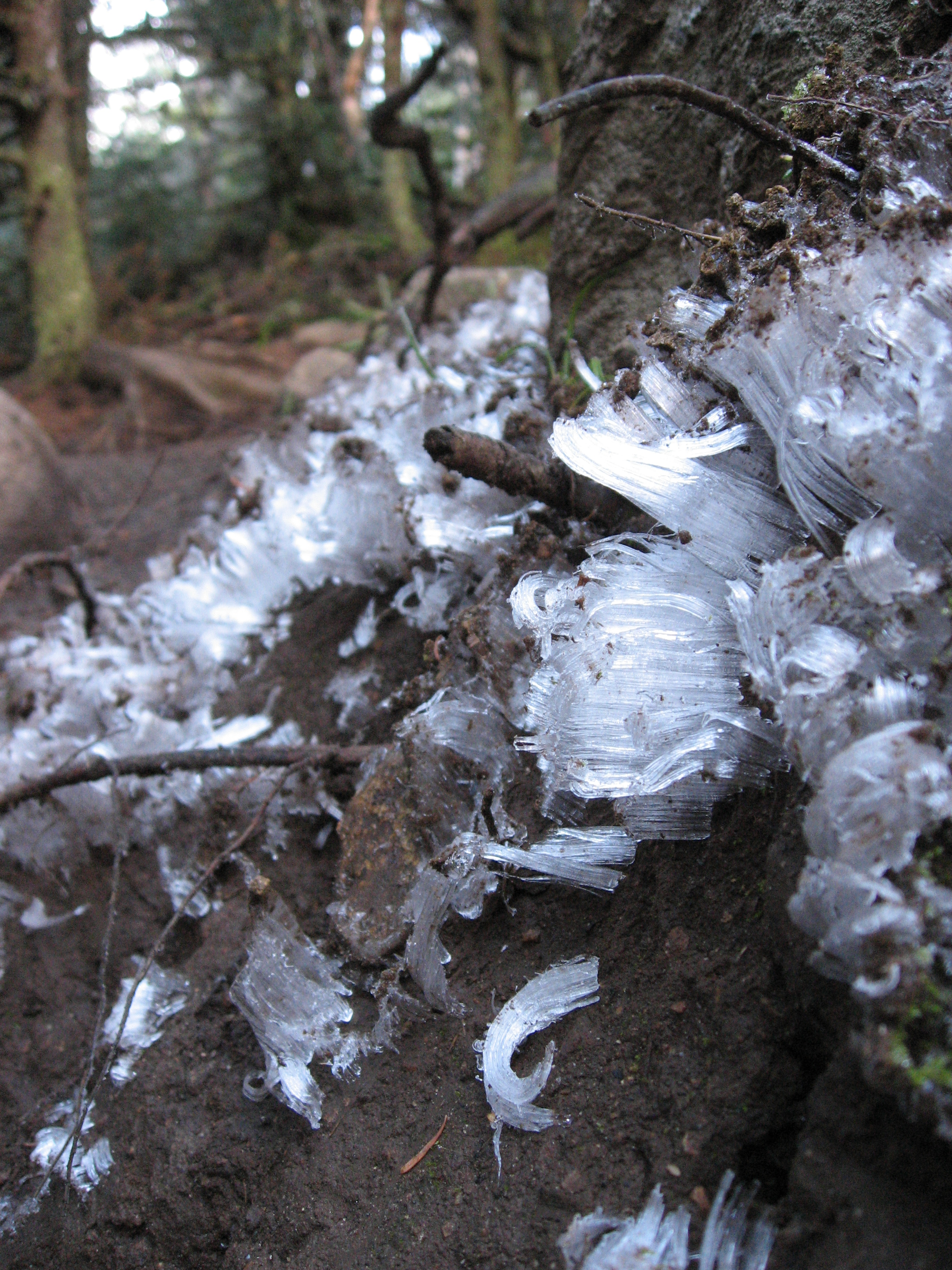 Strings of ice found in the Adirondack region of upper New York State. [1]